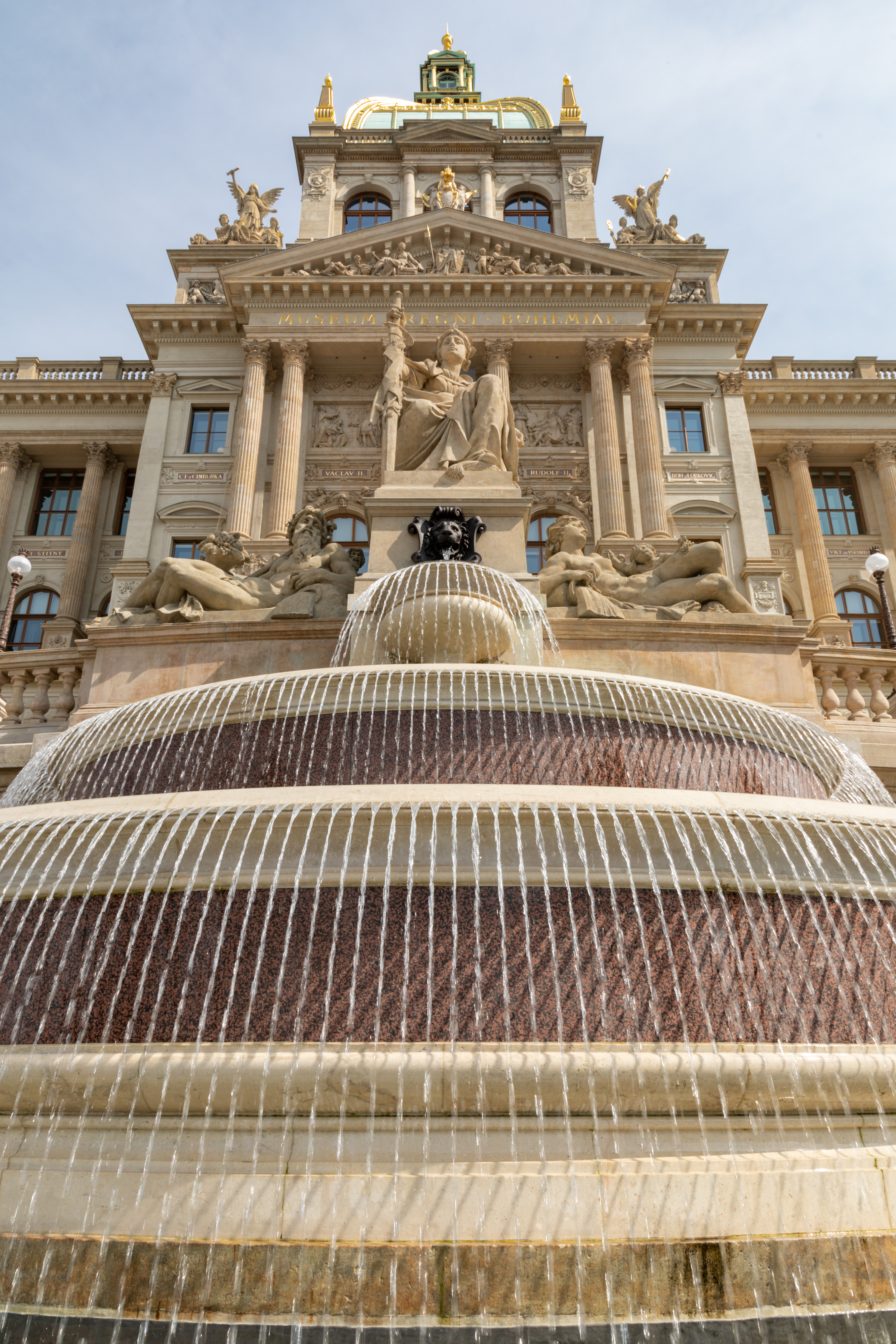 Fountain at National Museum, Prague, Czech Republic